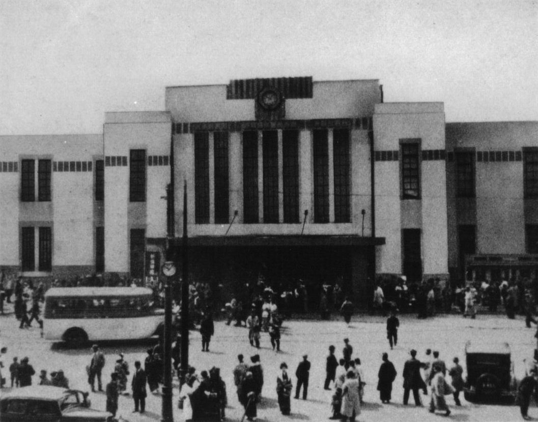 Third generation building of Shinjuku railway station in Yodobashi (present-day Shinjuku), Tokyo